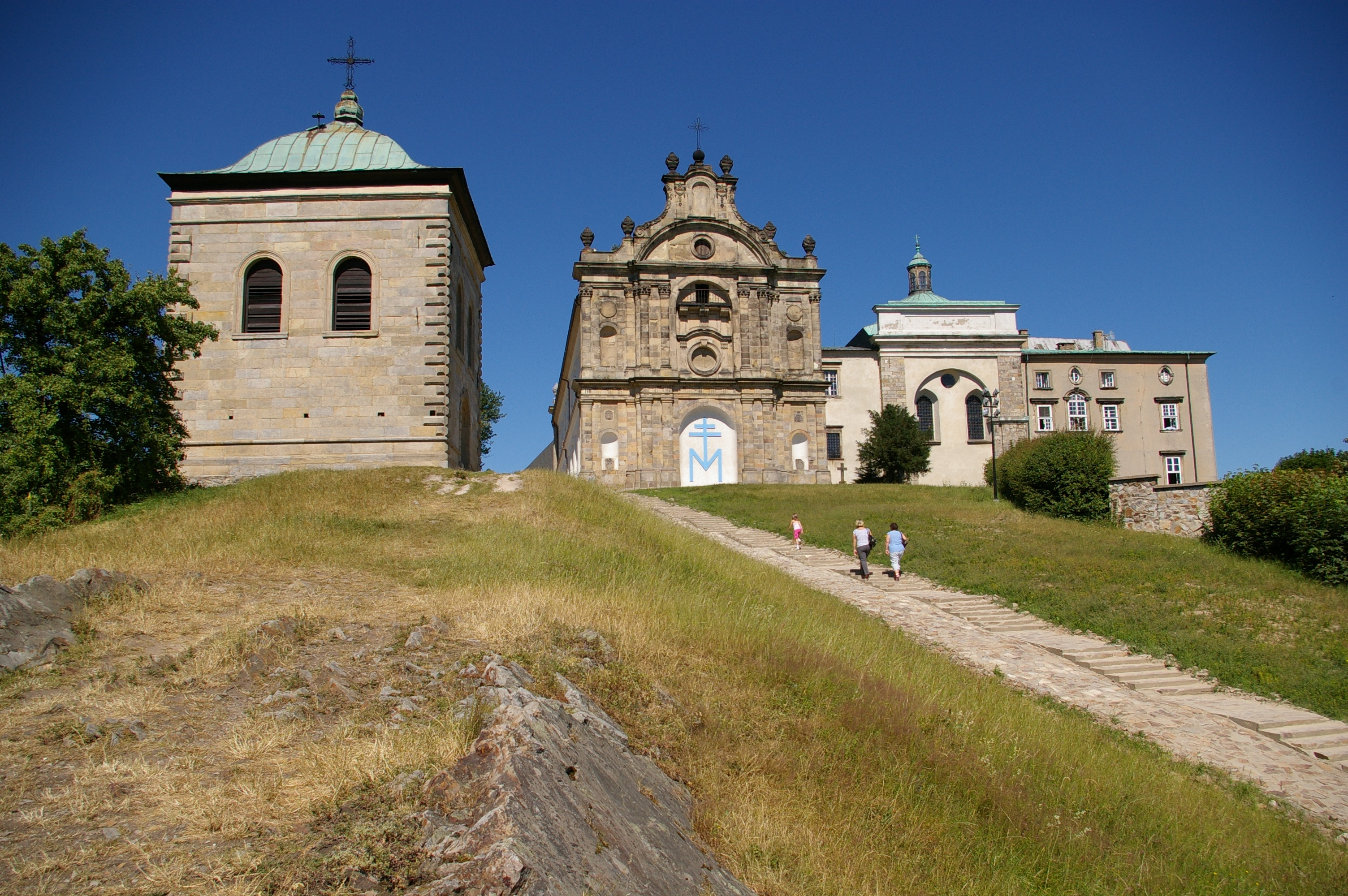 Benedictine Abbey on Święty Krzyż, Poland